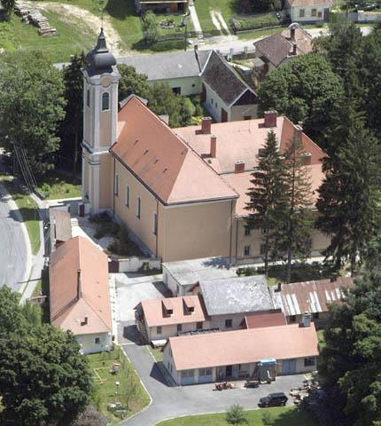 Bakonybél, Veszprém county, Hungary, aerial photography